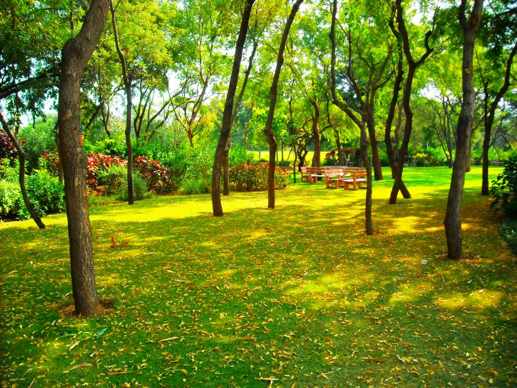 Beautiful Campus of Dhirubhai Ambani Institute of Information and Communication Technology, Gandhinagar, India